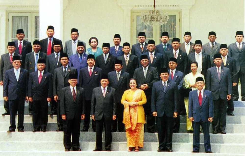 The newly-appointed President Megawati Sukarnoputri, together with her cabinet members, posed for photograph in front of the Merdeka Palace, Jakarta, on August 10, 2001.